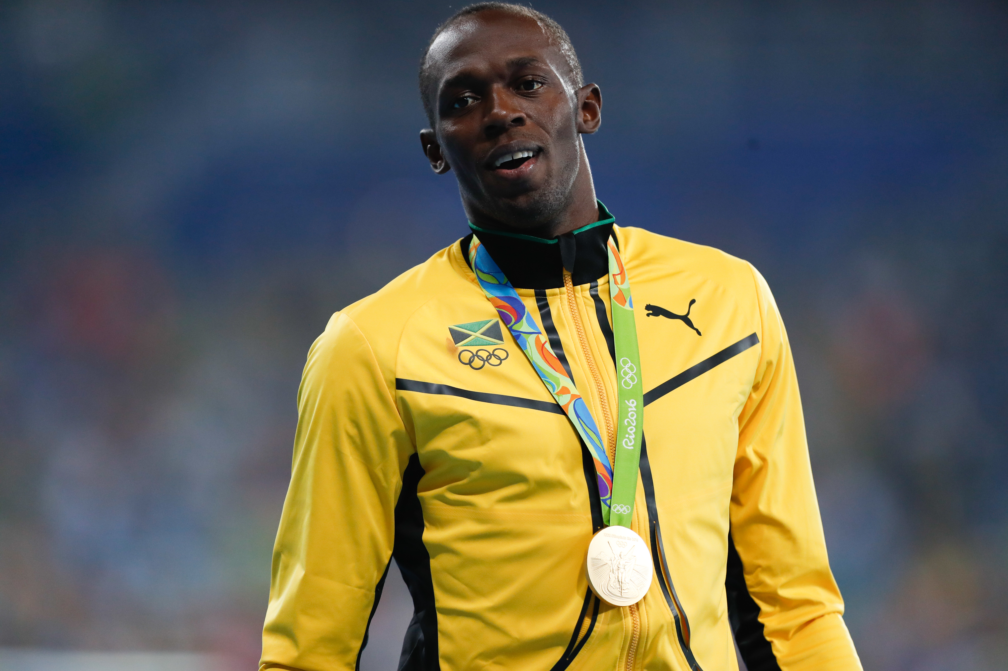 Rio de Janeiro - Usain Bolt recebe medalha pela vitória nos 200m rasos nos Jogos Rio 2016, no Estádio Olímpico. (Fernando Frazão/Agência Brasil)